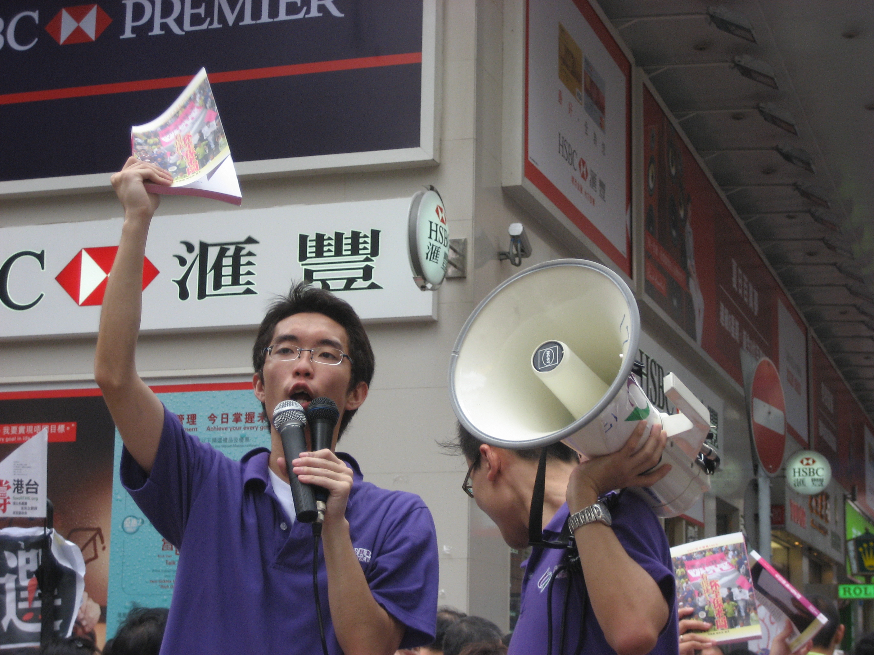 Thomas Yu Kwun Wai